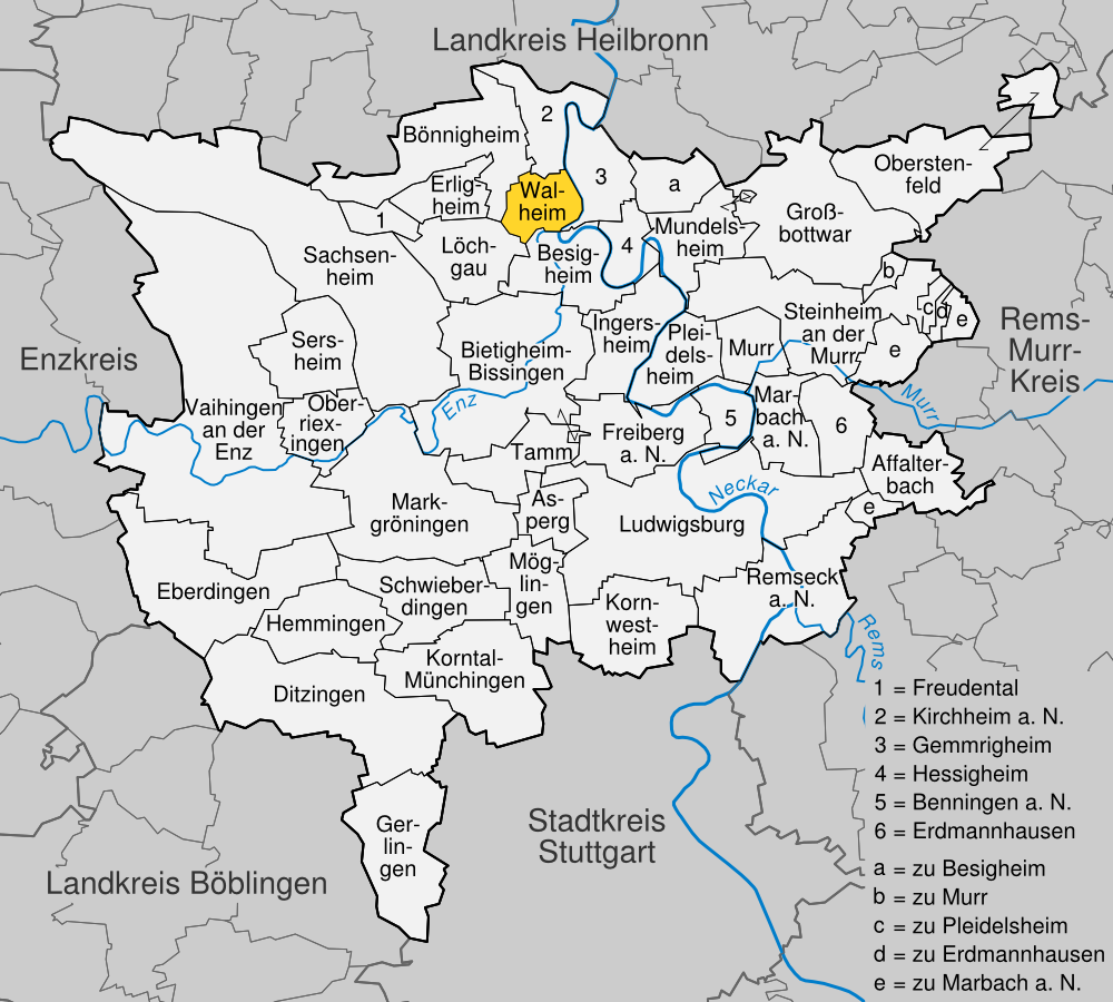 position of Walheim within distict of Ludwigsburg, Baden-Württemberg, Germany